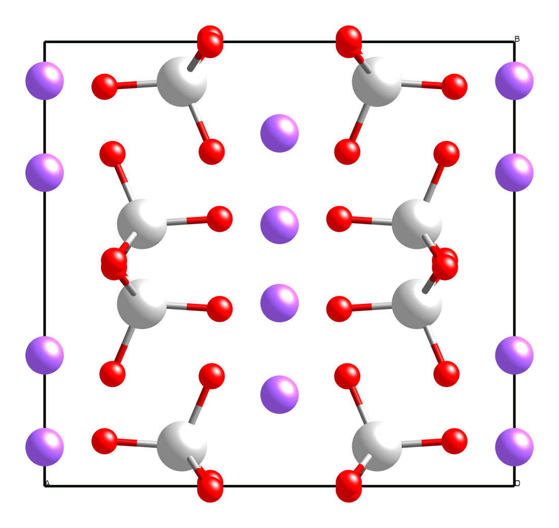 Ball-and-stick model of the unit cell of the alpha polymorph of sodium metavanadate, α-NaVO3. Crystal structure from Acta Cryst. (1974). B30, 1628-1630. Model constructed and image generated in CrystalMaker 8.1.